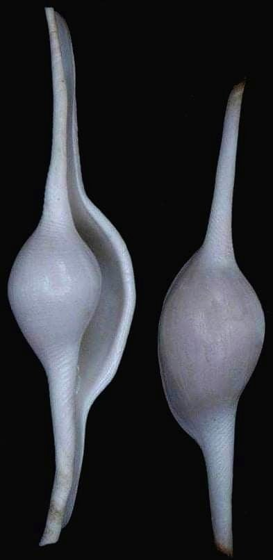 The Ovulidae seashell Volva volva (Linnaeus, 1758)[1]. Color image. Near coral reefs of Indo-Pacific; locally common. ABBOTT, R. Tucker; DANCE, S. Peter (1982). Compendium of Seashells. A color Guide to More than 4.200 of the World's Marine Shells. New York: E. P. Dutton. p. 100. 412 pp. ISBN 0-525-93269-0